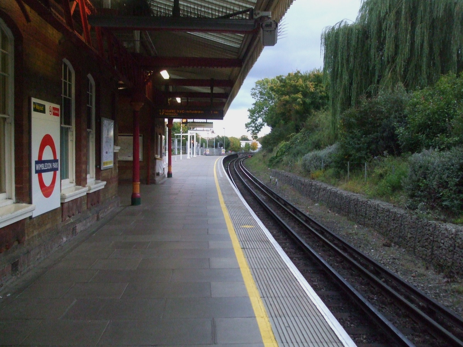 Wimbledon Park tube station eastbound platform (actually northbound here) looking south